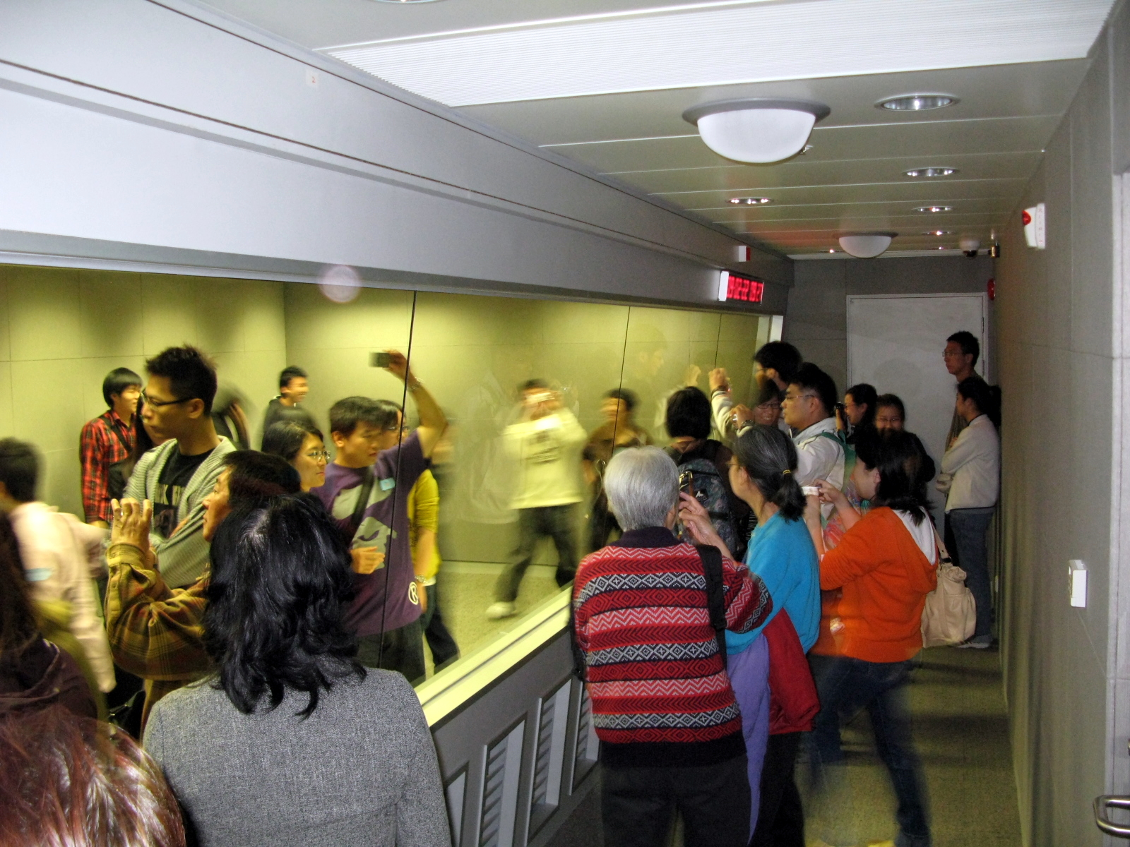 ICAC Building Identification Parade Suite 廉政公署總部大樓列隊認人室